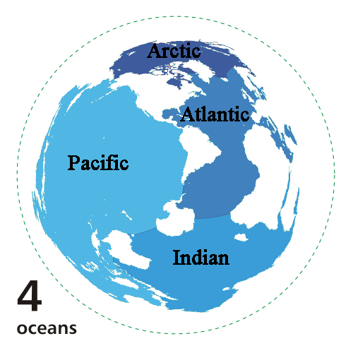 Ocean boundaries following the 4 oceans model. One of 4 images of the created by user Quizimodo and released in the public domain.